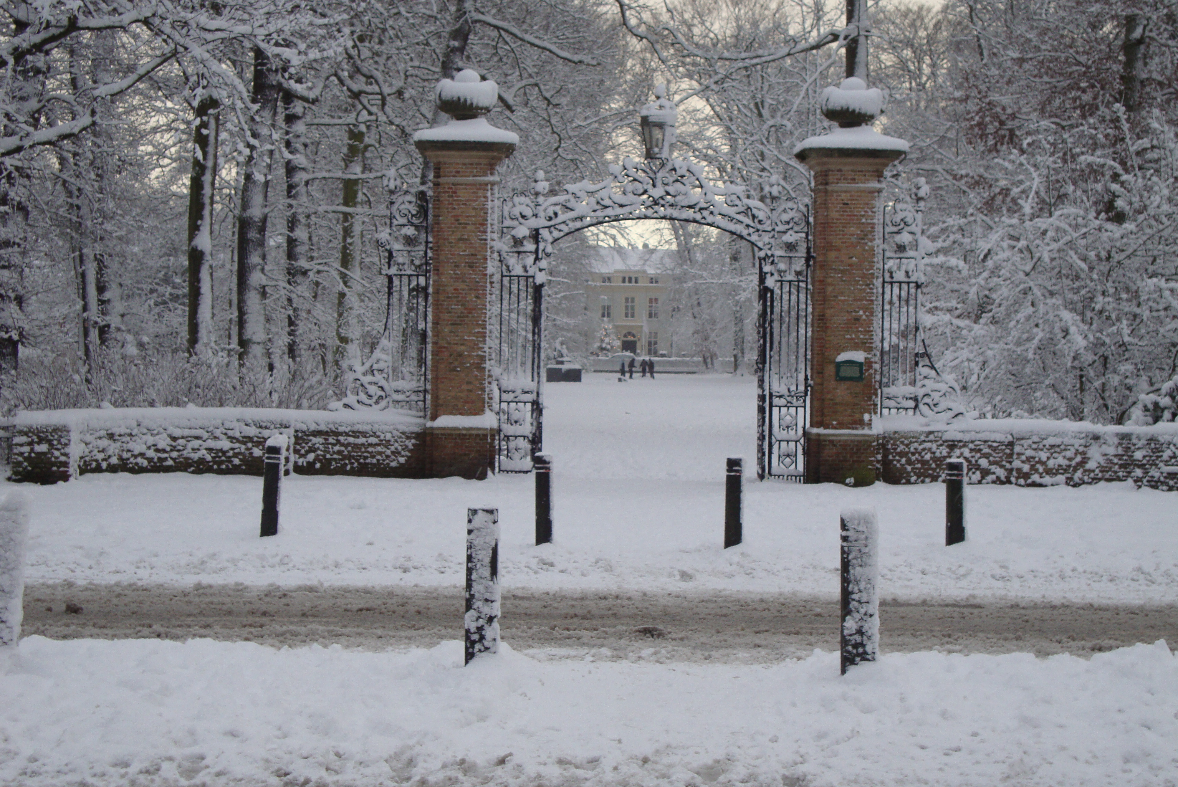 Voorburg estate "Vreugd en Rust" during winter time